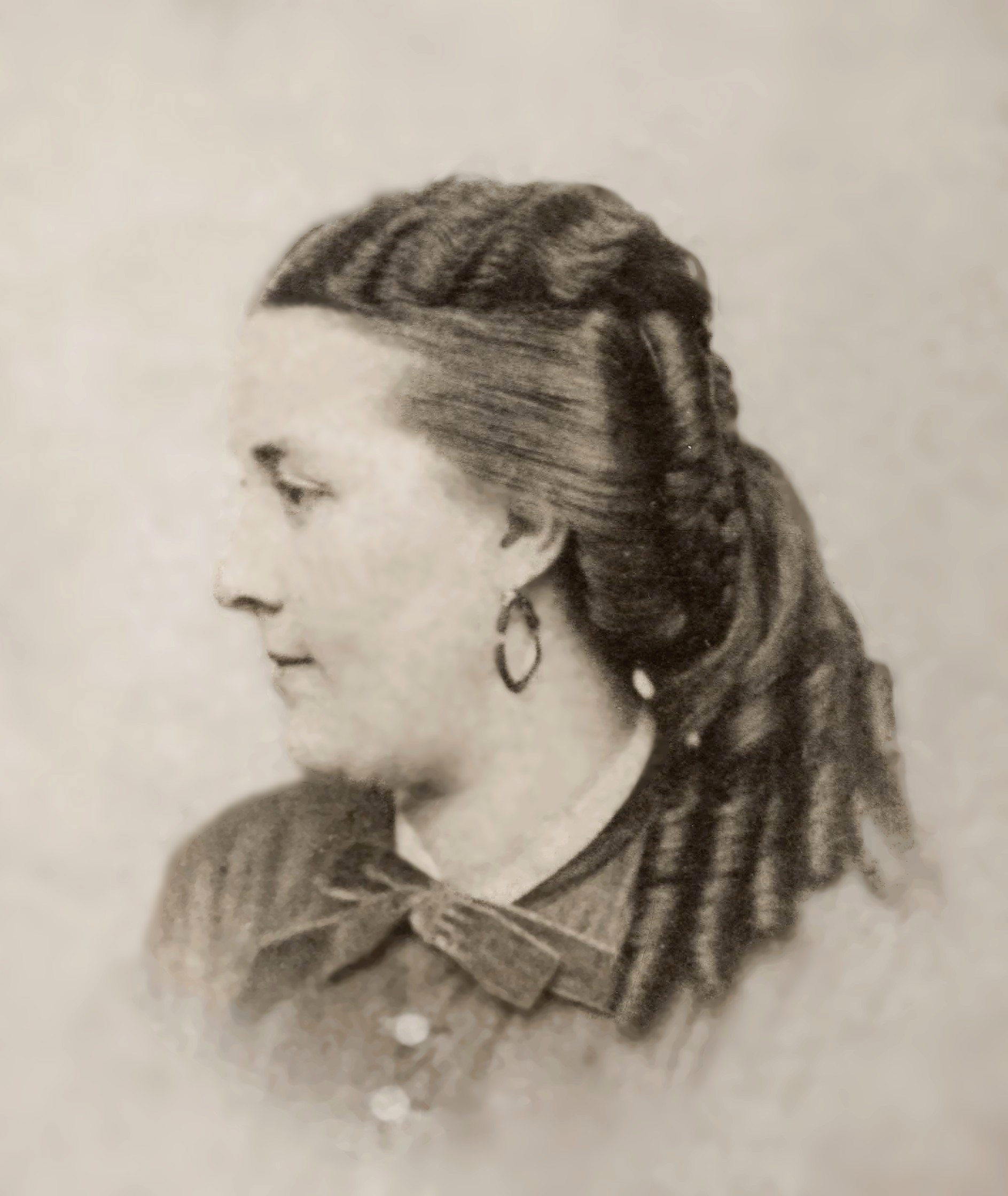 Photo of Lucy Hale, the daughter of U.S. Senator John P. Hale and the secret fiancee of John Wilkes Booth (the assassin of U.S. Pres. Abraham Lincoln in 1865). The photo was found on Booth's body after he was killed by pursuing Federal troops on 26 April 1865.